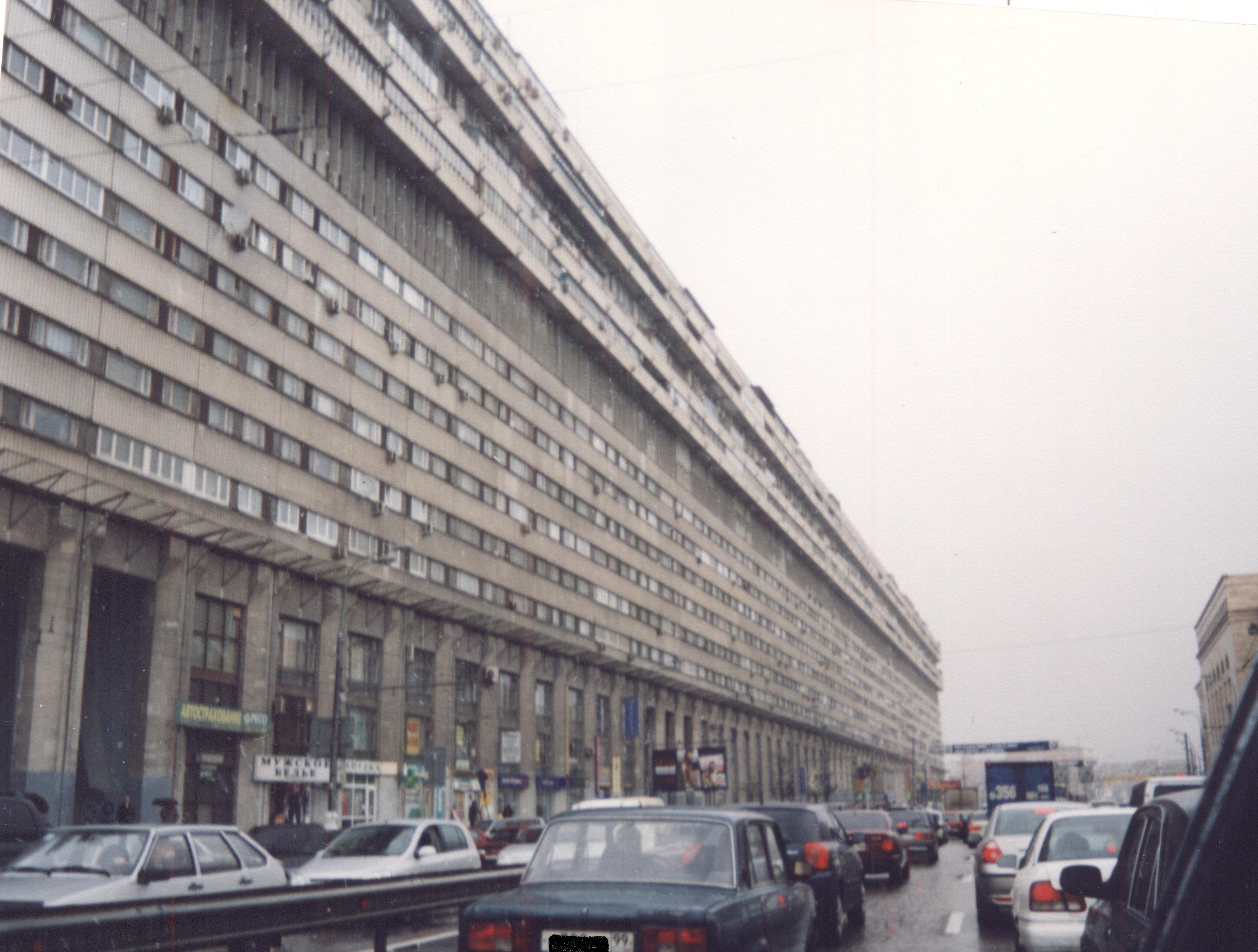 Tulskaya Bolshaya street, Moscow, Russia